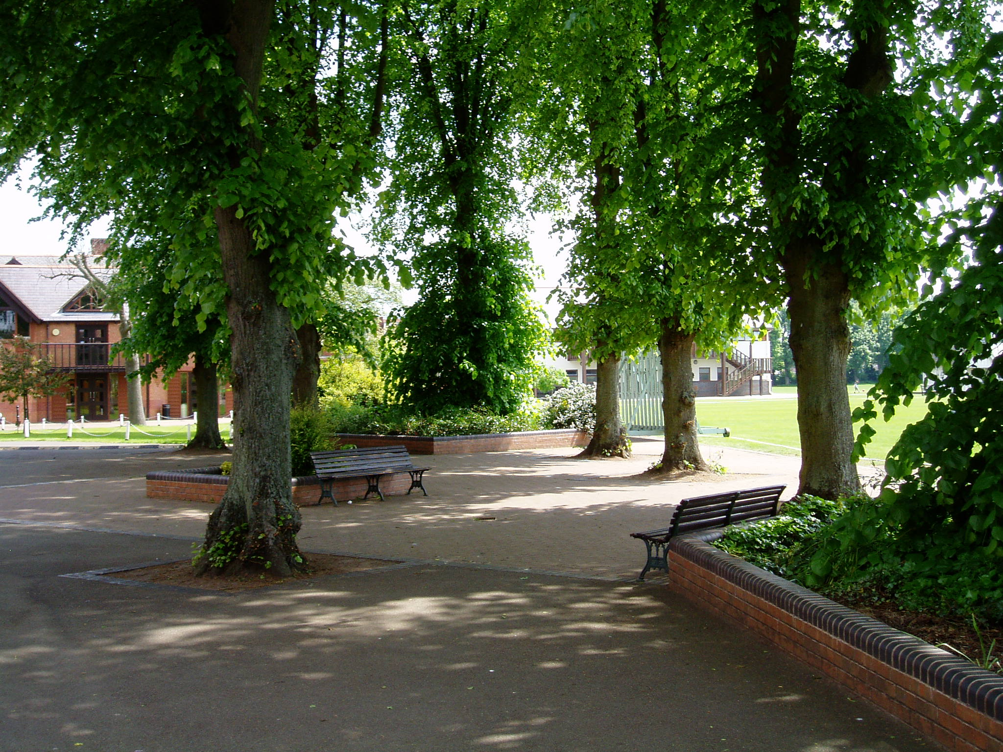 Warwick School, England. The Limes were planted in 1887 to mark Queen Victoria's Golden Jubilee., private photograph